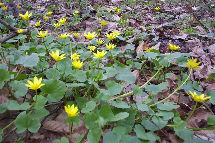 Ficaria verna (Ranunculus ficaria bulbifer) in forest near Zyrardów (Poland, Masovia).